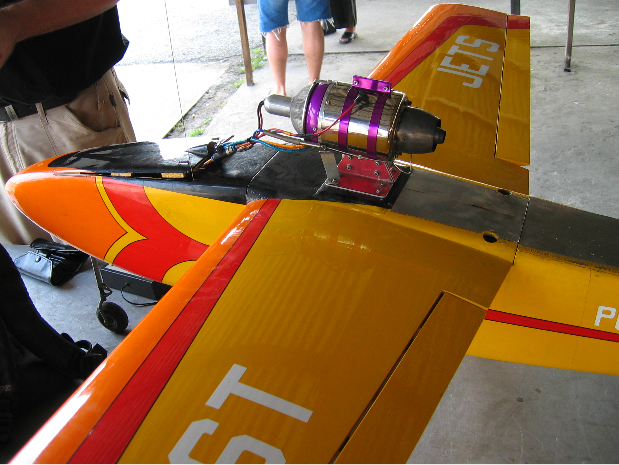 I took this picture at a model plane airstrip outside Bangkok. The plane is a test/tutor plane for PST jets. This jet gives about 7kg thrust. Cropped a little in gimp.